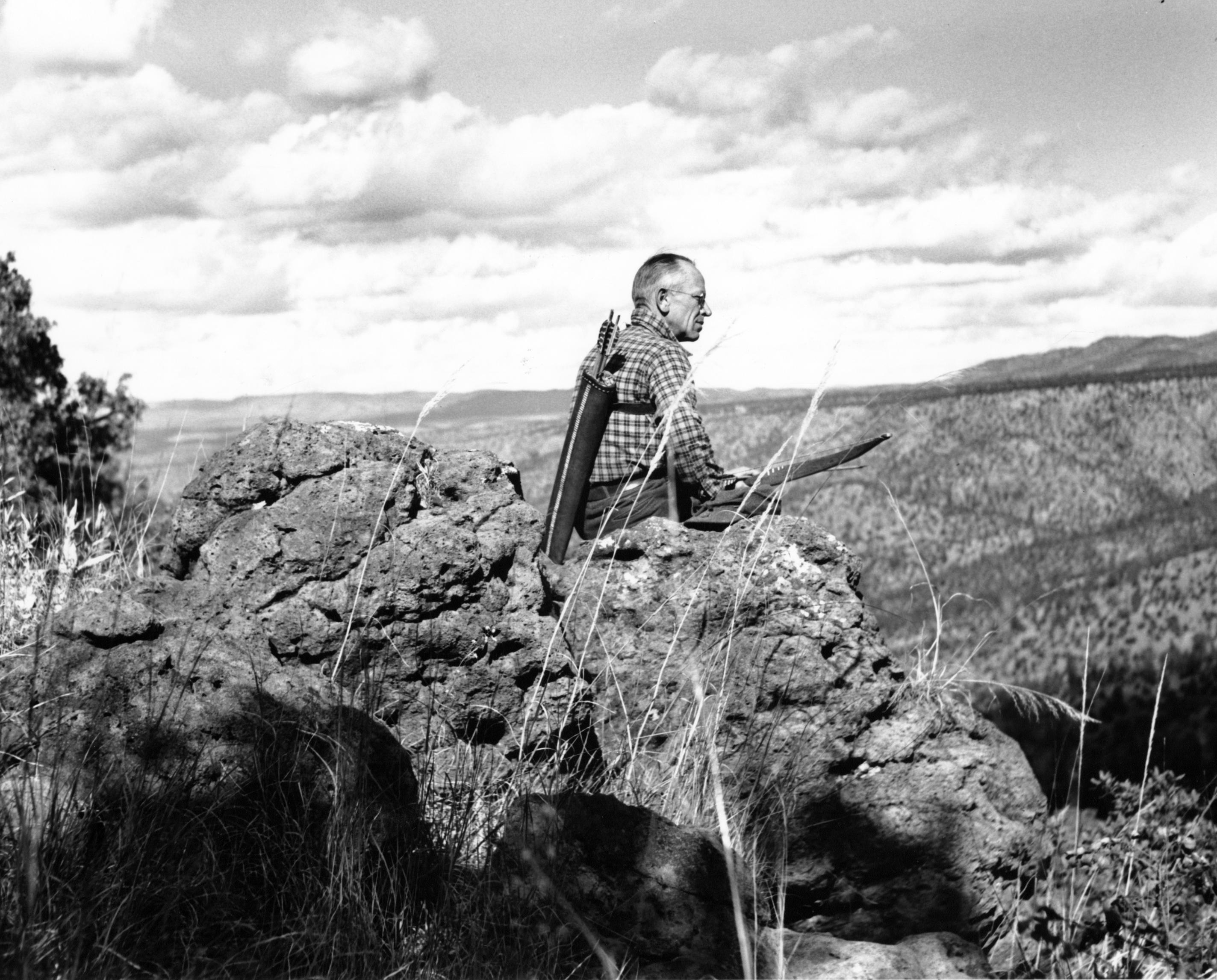 Leopold's trips to the Rio Gavilan region of the northern Sierra Madre in 1936 and 1937 helped to shape his thinking about land health.